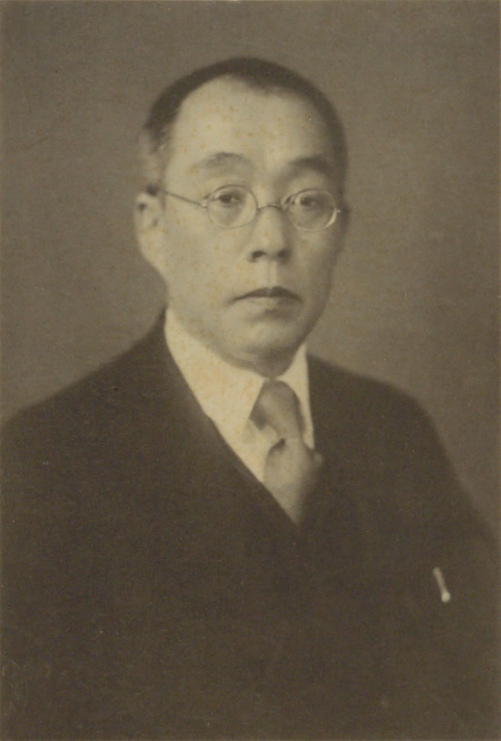 Portrait of Makino Eiichi (牧野英一, 1878 – 1970)